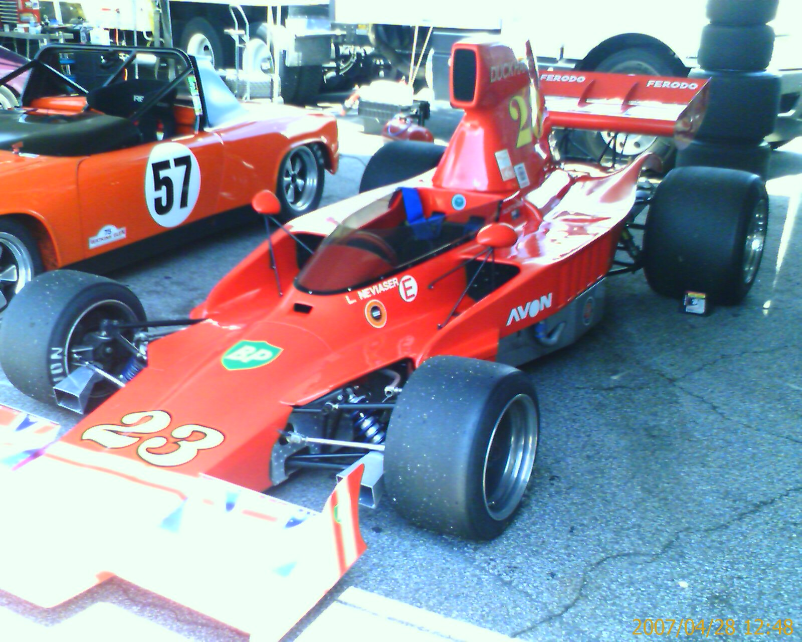 Lola T-332 F5000 car taken 4/30/2007 by User:Scottanon. Freely released into public domain, no restrictions on use Taken in the pits at the 2007 Walter Mitty Challenge at Road Atlanta